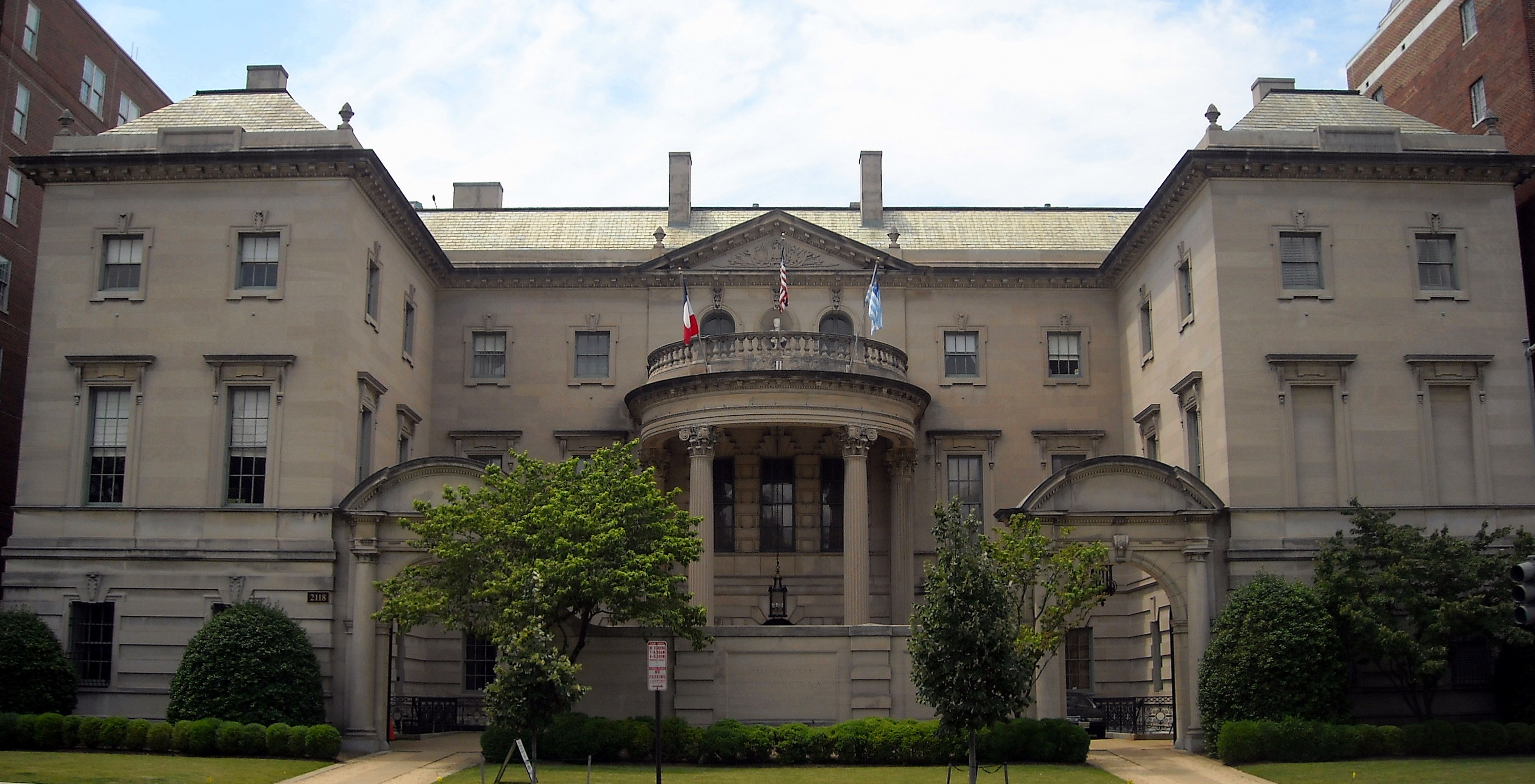 The Larz Anderson House, headquarters to the Society of the Cincinnati, located at 2118 Massachusetts Avenue, NW in the Dupont Circle neighborhood of Washington, D.C. Built in 1905, Anderson House is an example of the many Beaux-Arts structures which line Massachusetts Avenue, NW (now known as Embassy Row). In addition to serving as the SOC headquarters, Anderson House contains a library and small museum.